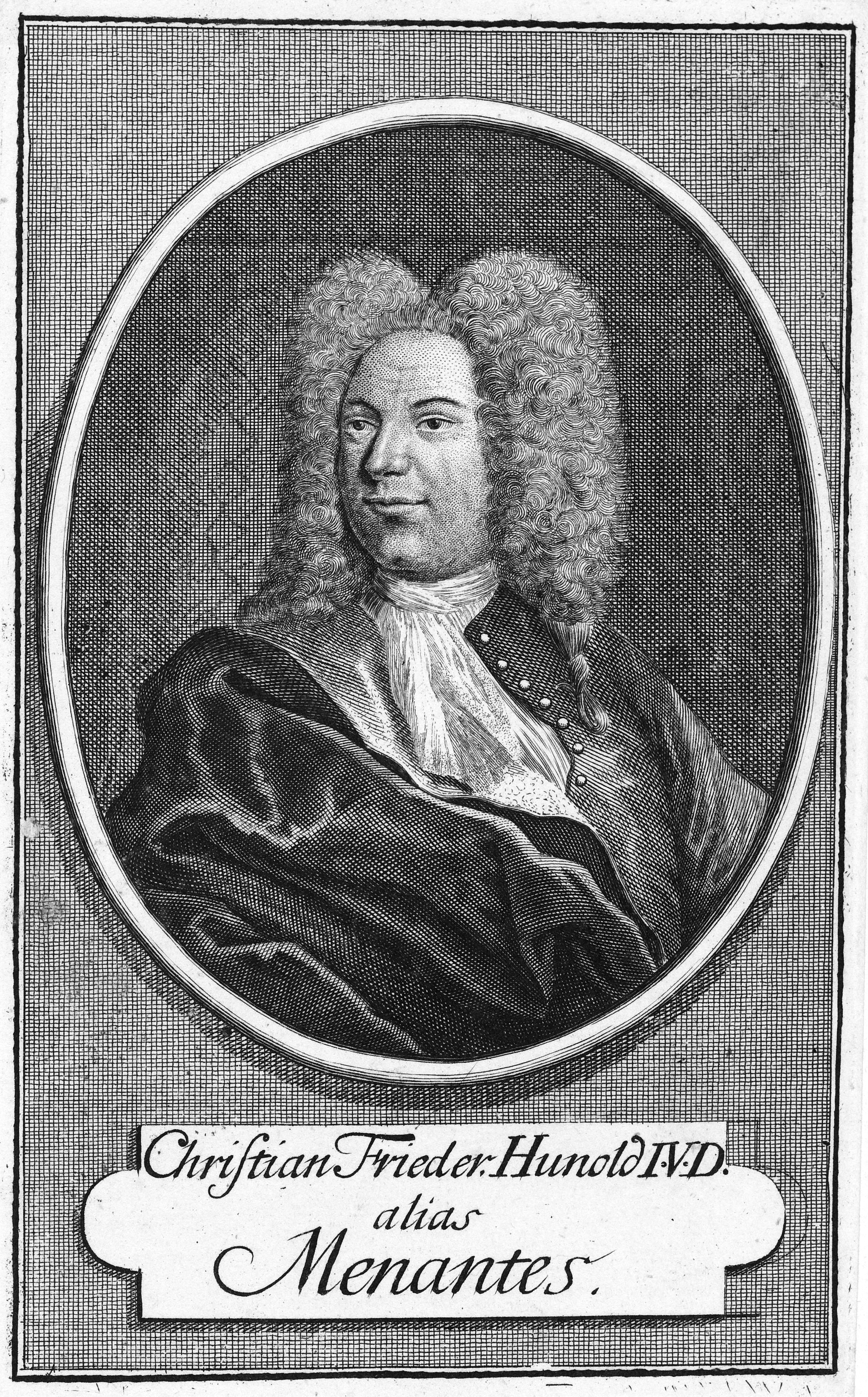 Depicted person: Christian Friedrich Hunold